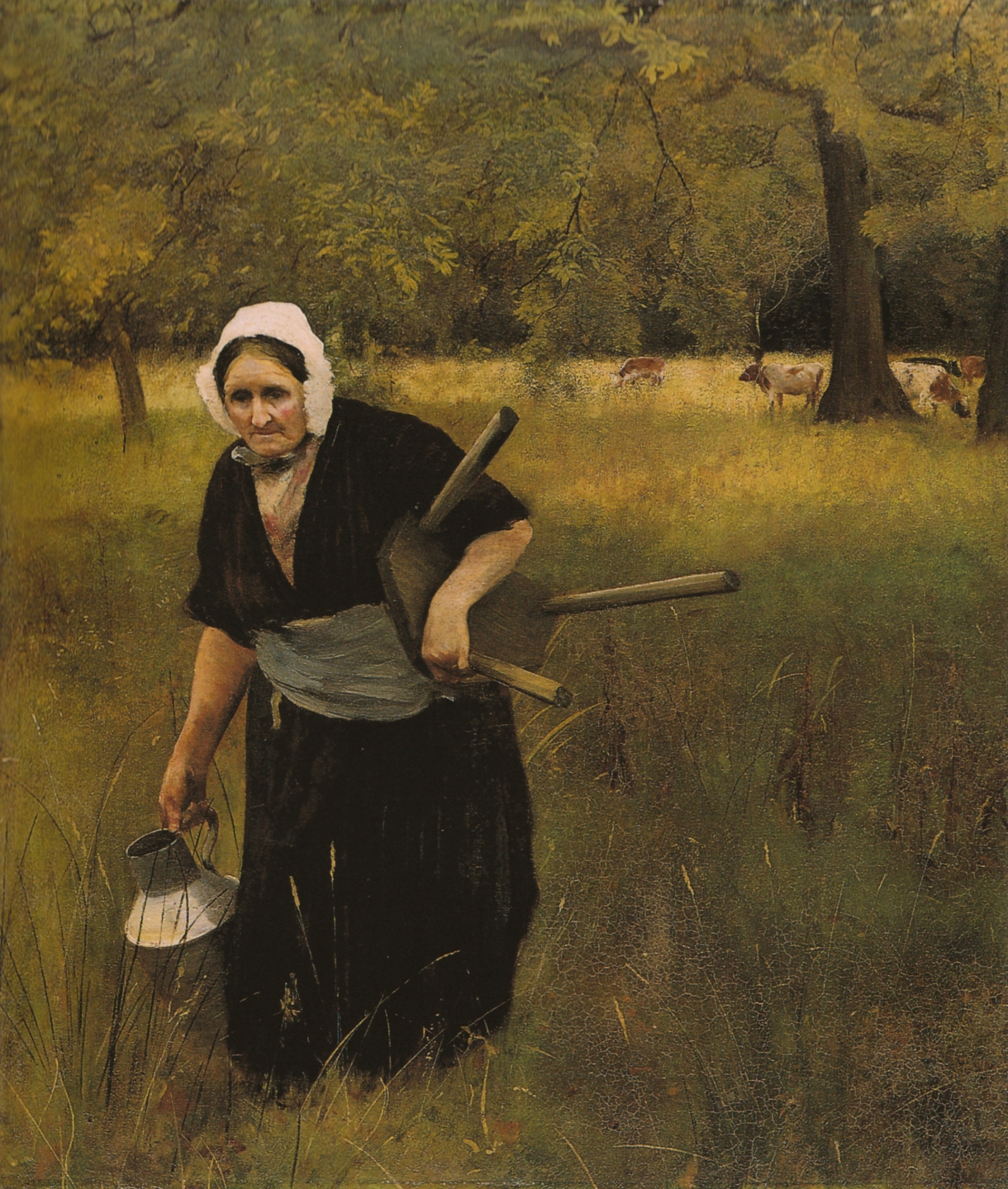 The Dairy Maid